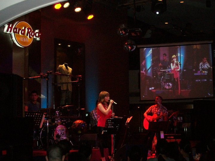 Nina performing her hit "Someday" at Hard Rock Cafe on December 18, 2010.